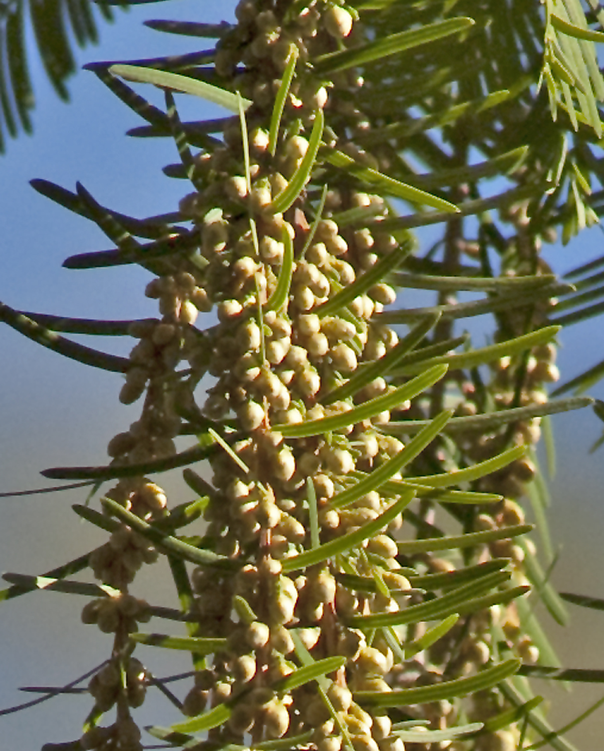 Botanical Garden Hermannshof at Weinheim, Dawn Redwood, branch with flower buds